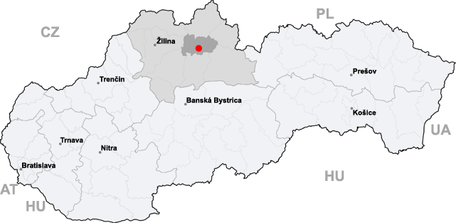 map of Slovakia, city of Dolný Kubín highlighted